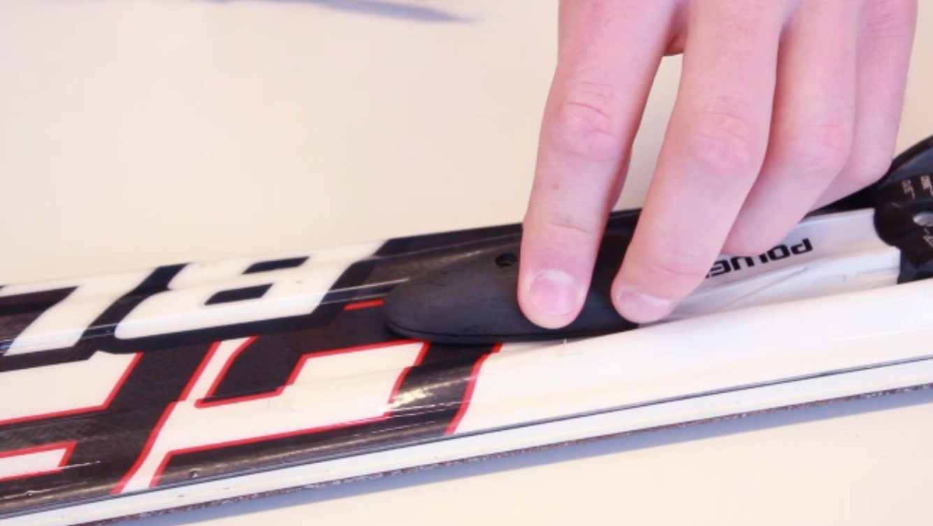 The method for mounting the Alpine Hawk